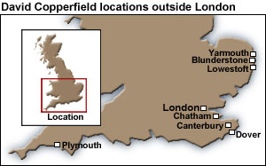 David Copperfield, Map of England and locations outside London